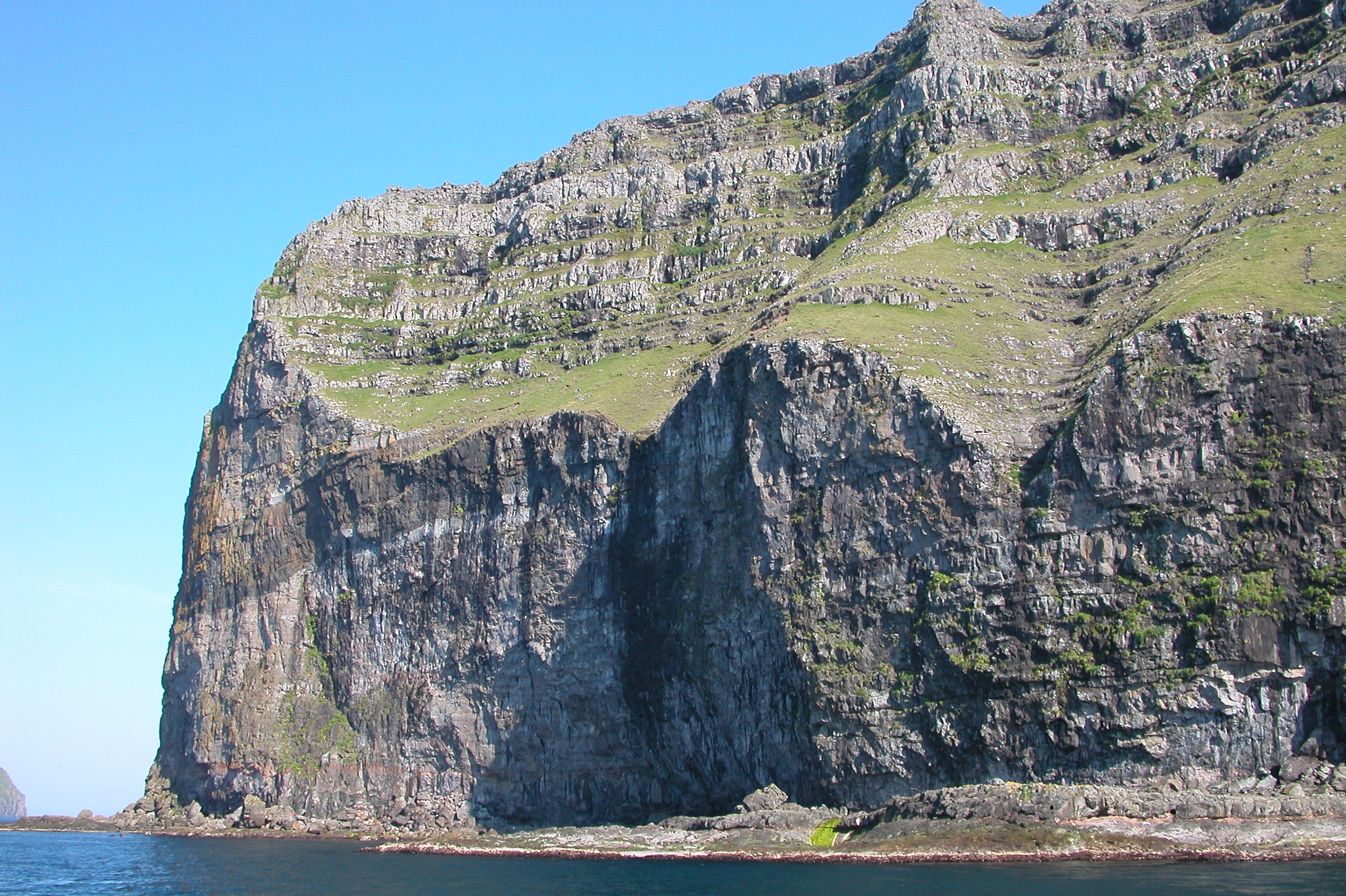 Coast of Svínoy, Faroe Islands.